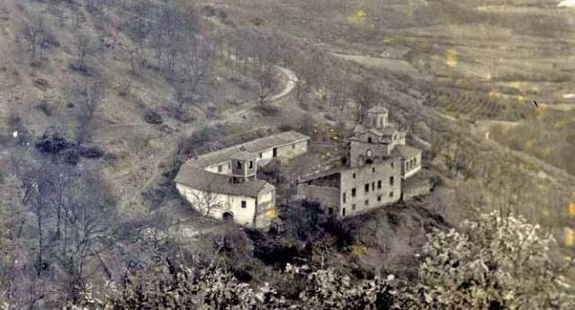 Lakočerej Monastery near Ohrid, Macedonia